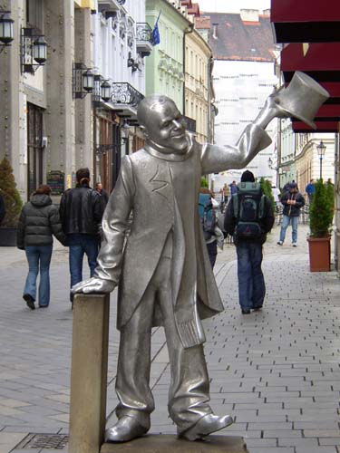 Schone Naci statue on Sedlarska street in Old Town Bratislava